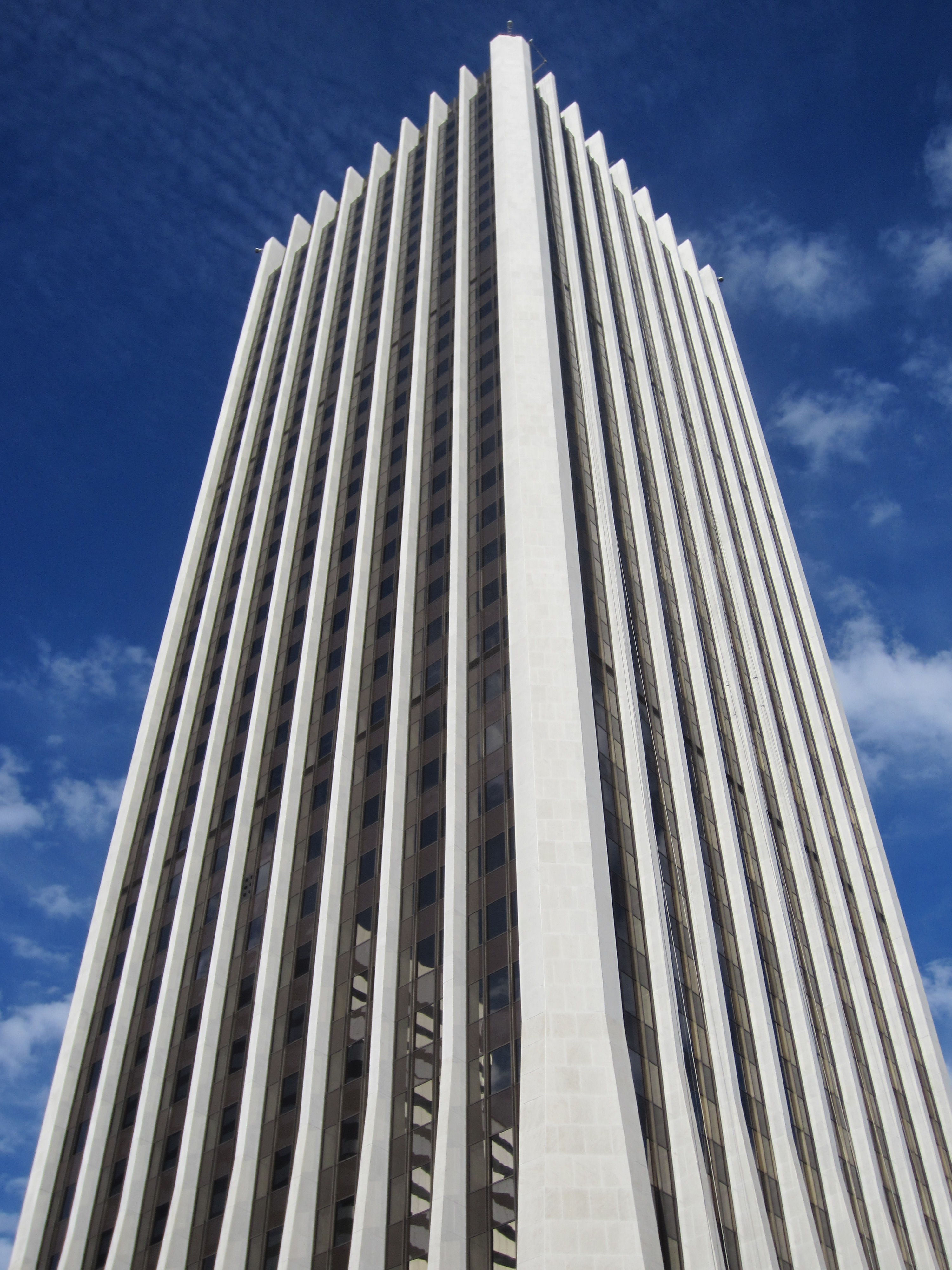 Wells Fargo Center (2012) in Portland, Oregon